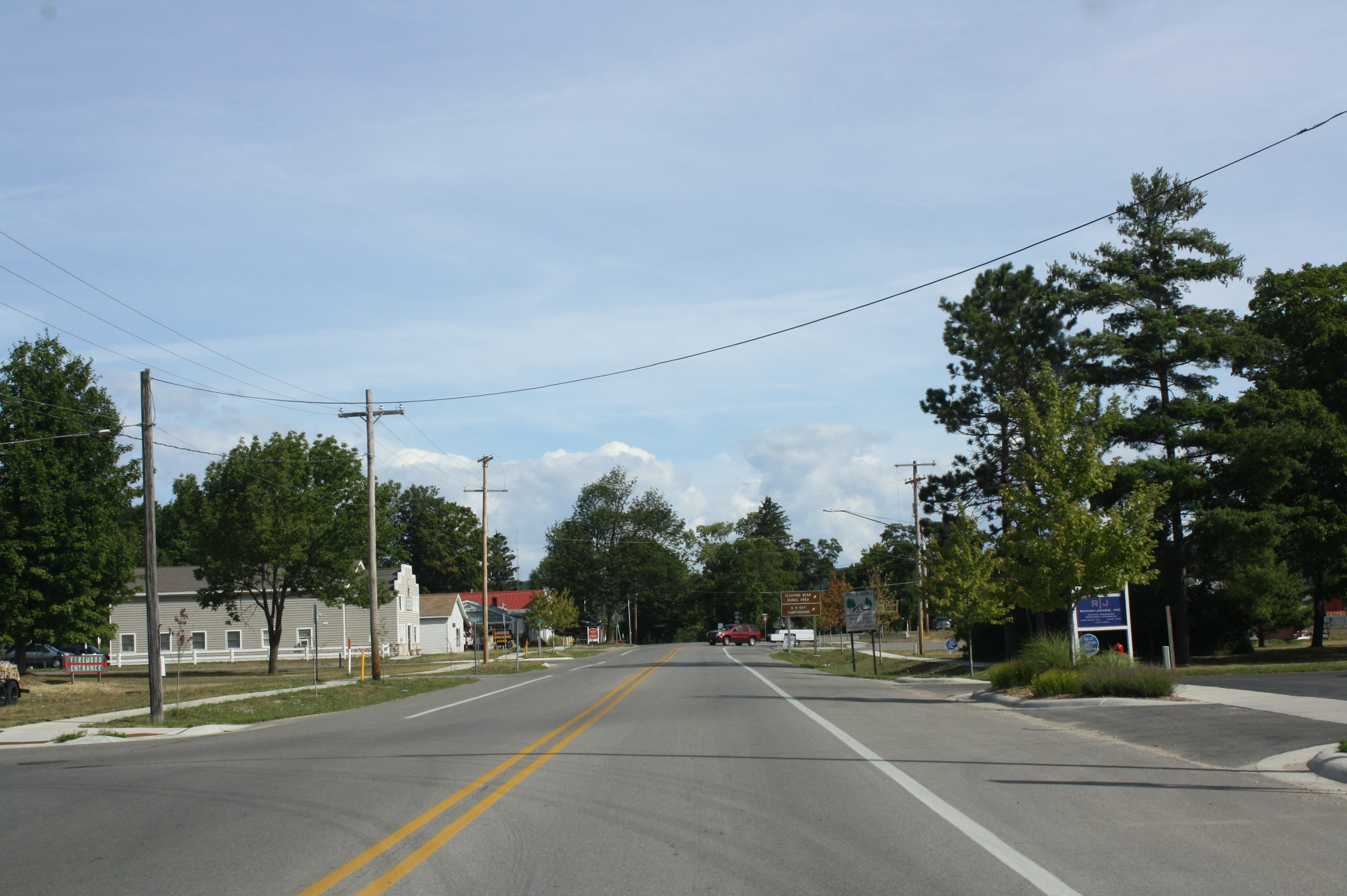 Looking north in Empire, Michigan on M-22 (Michigan highway).